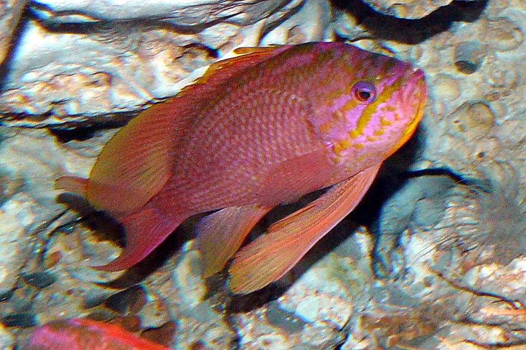 Anthias anthias, male